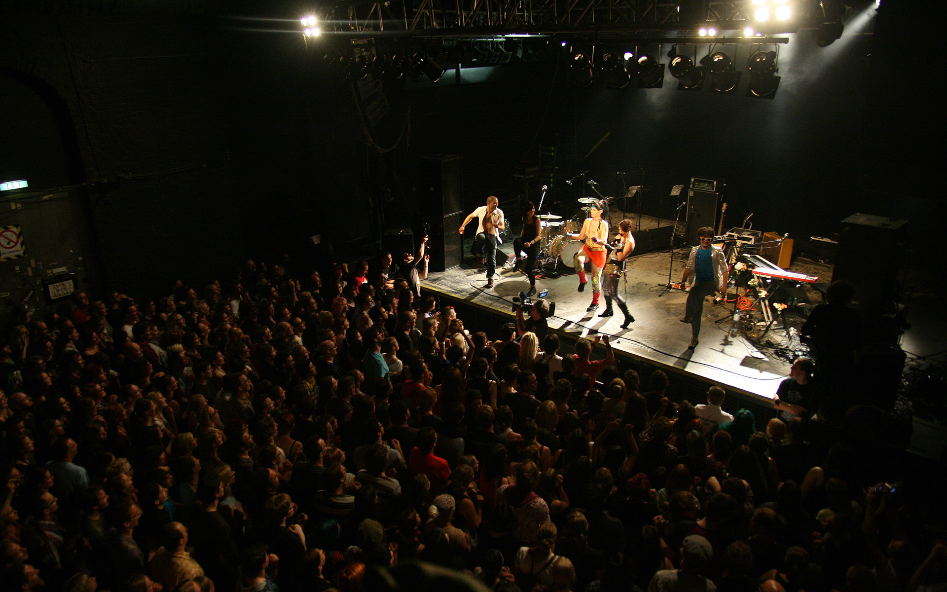 Amanda Palmer - concert at the Arena in Vienna, Austria.